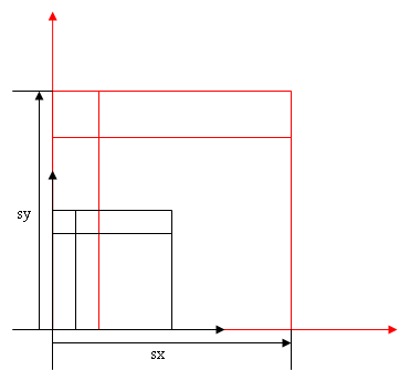 Scaling of a Coordinate System